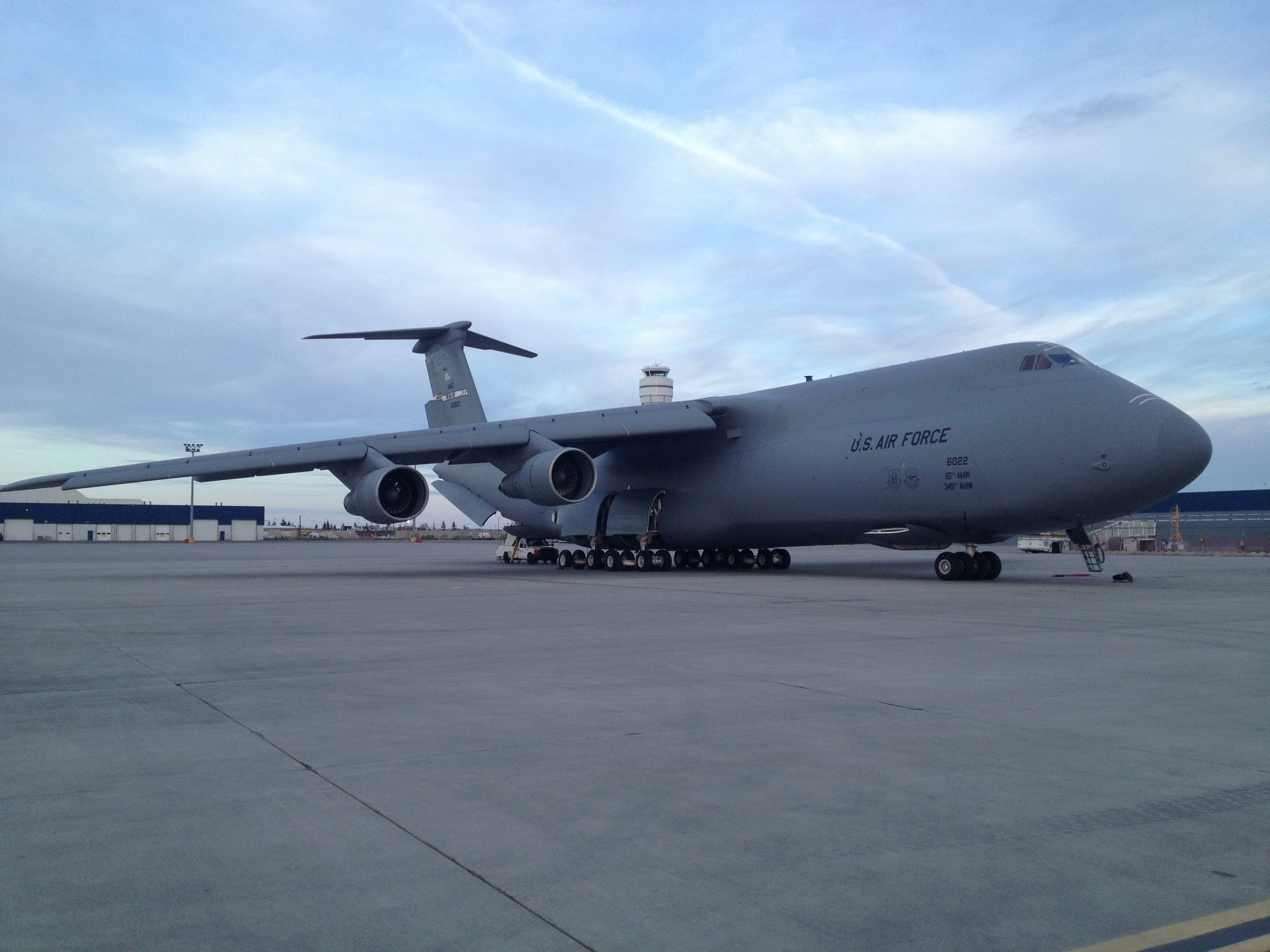 A USAF C5 Galaxy from Travis AFB made an emergency landing tonight at YYC. More to come